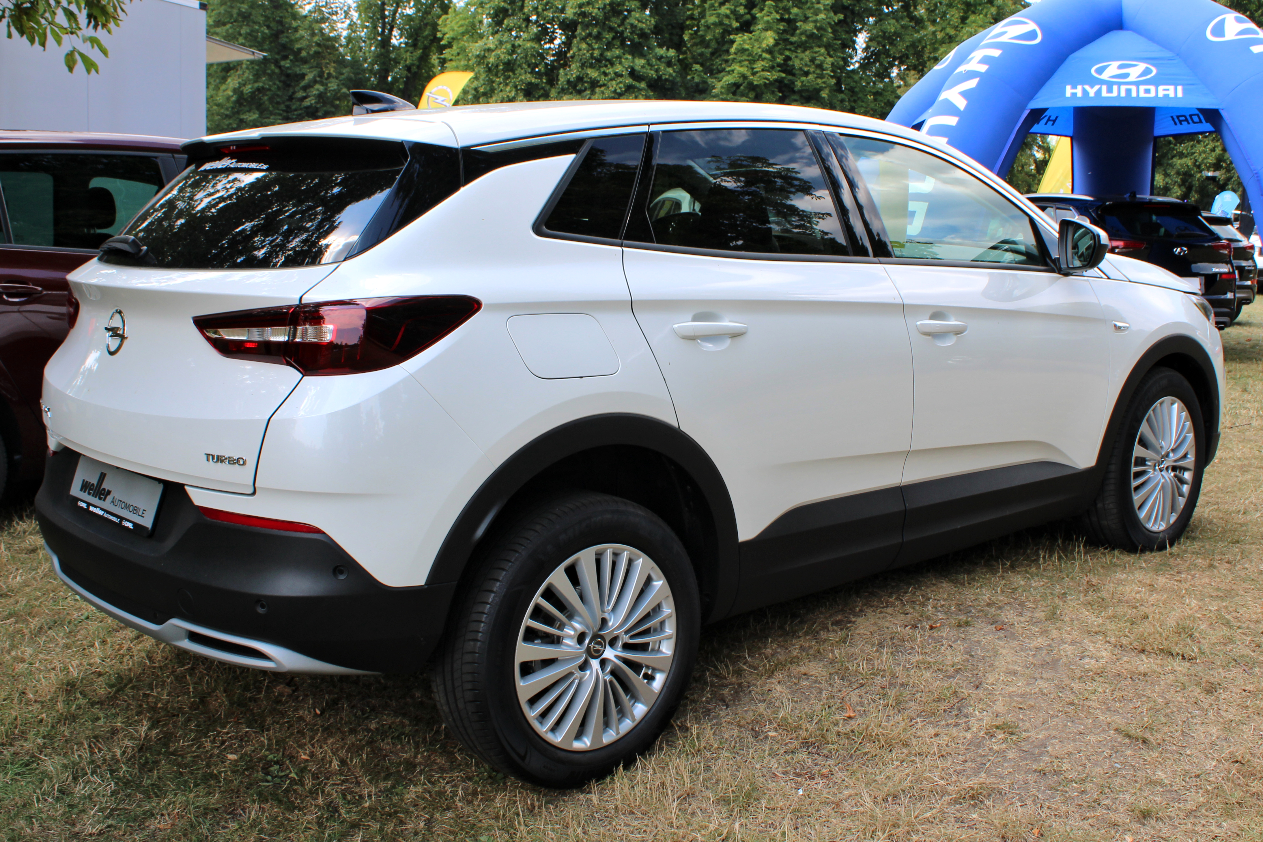 Opel Grandland X at schloss Monrepos